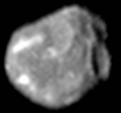 Amalthea Moon